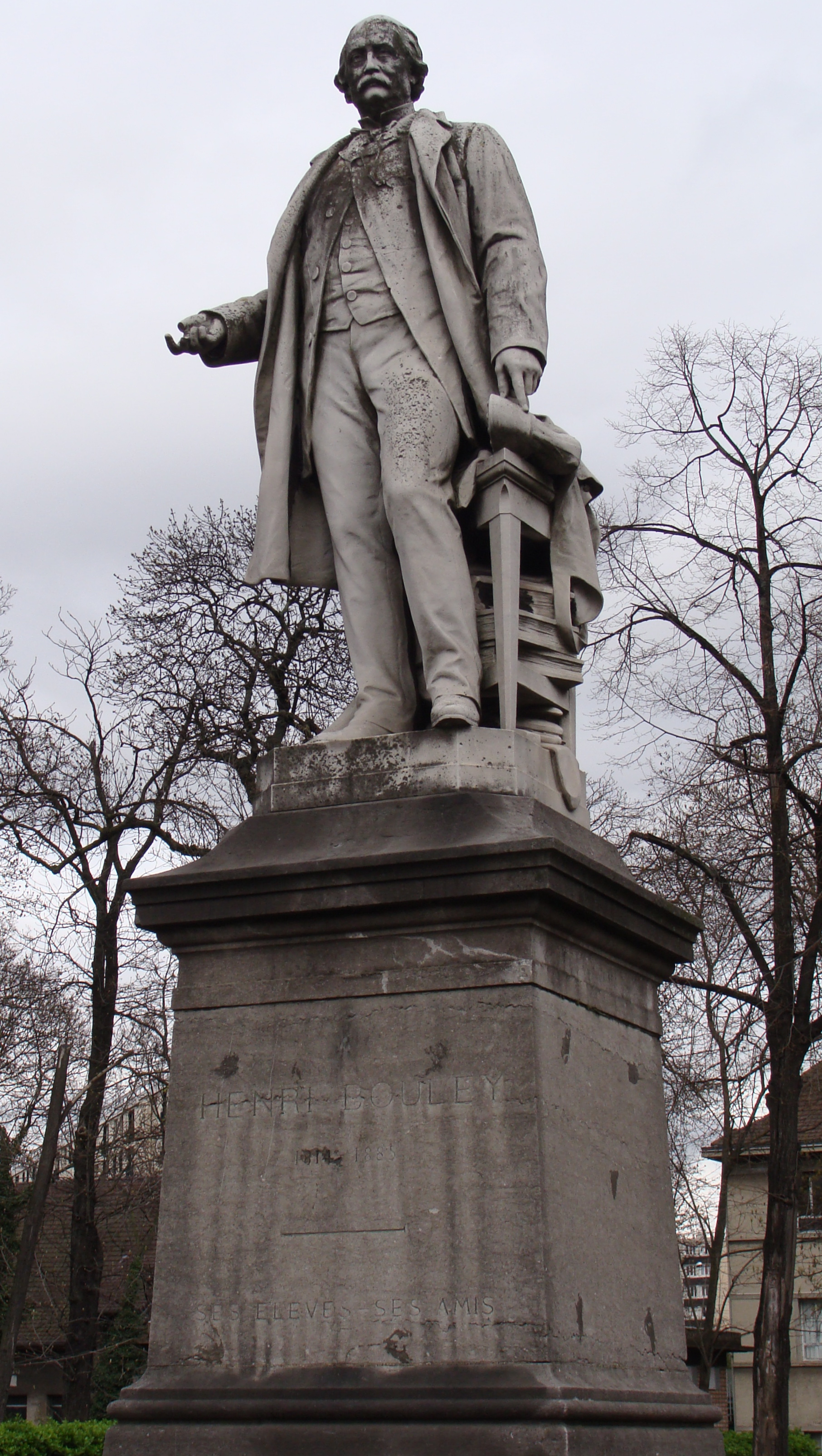 A statue of Henri Bouley, 1814-1885, famous veterinarian from France, supporter of Pasteur.